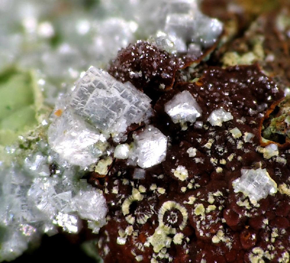 Otavite Locality: Tsumeb Mine (Tsumcorp Mine), Tsumeb, Otjikoto (Oshikoto) Region, Namibia (Locality at ) Picture width 3 mm. Collection and photograph Christian Rewitzer. Microprobed !